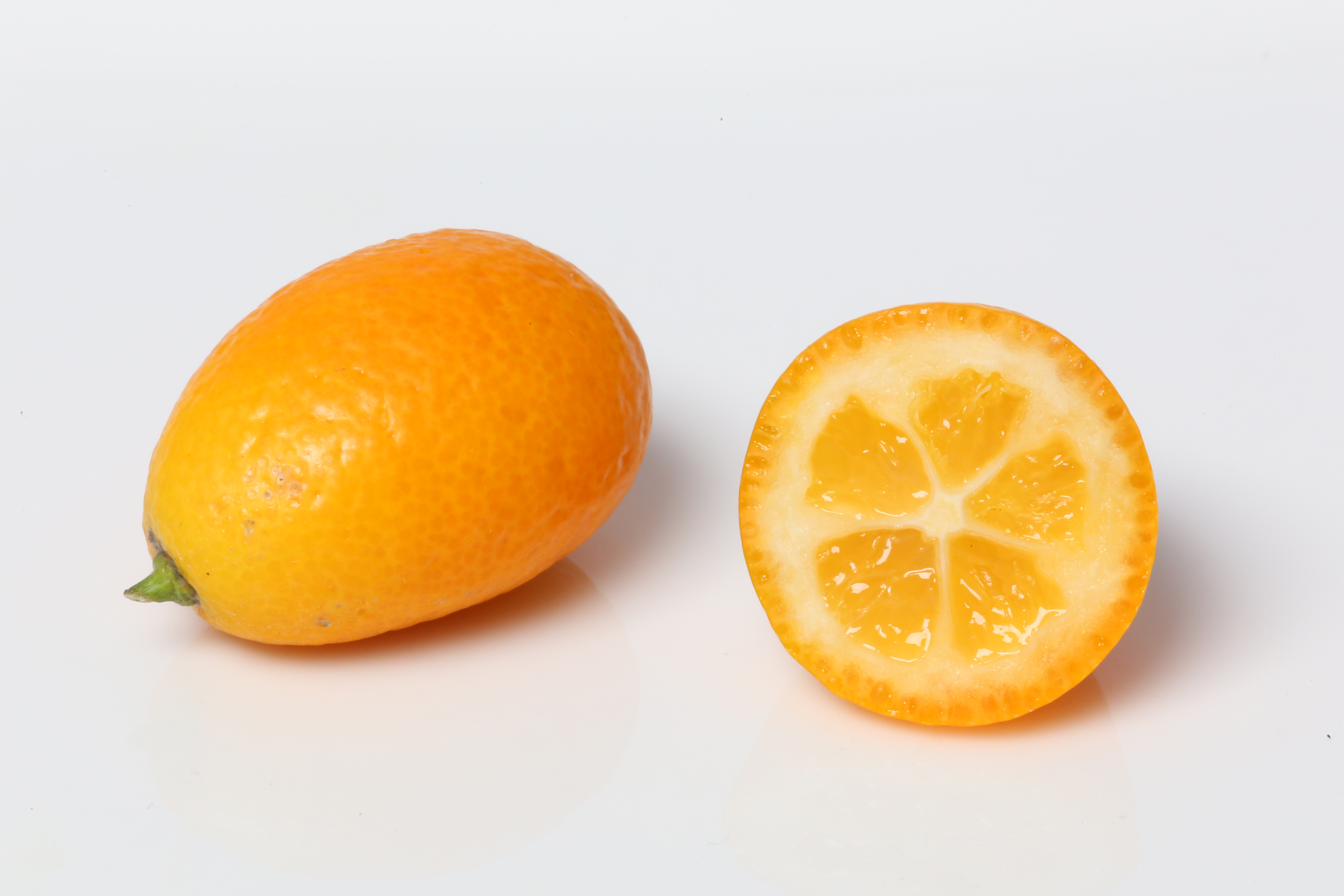 Kumquat, closed and opened fruit